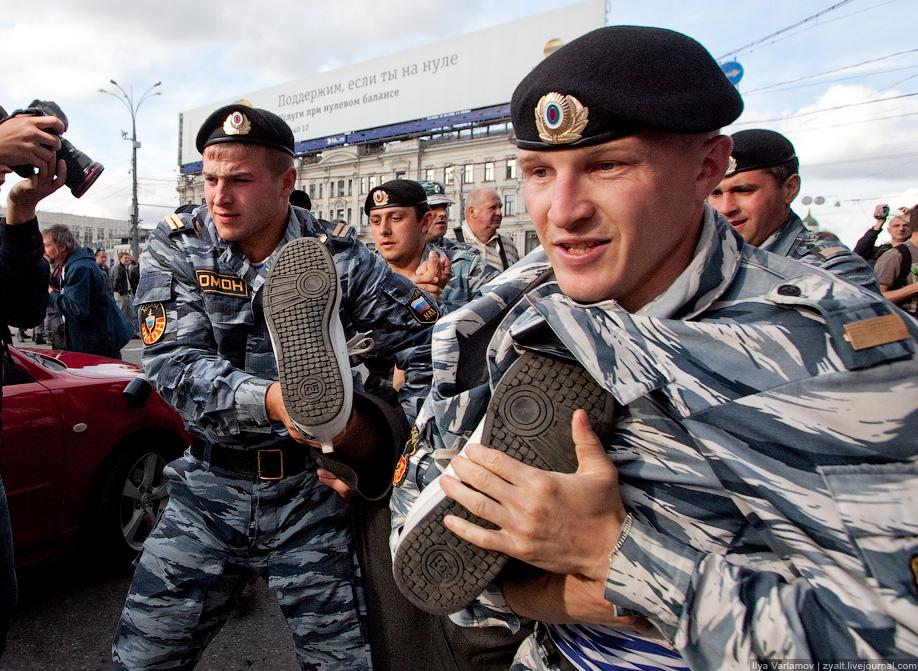 Protest action in defense of Article 31 (Freedom of assembly) of the Russian Constitution. Moscow, August 31, 2009